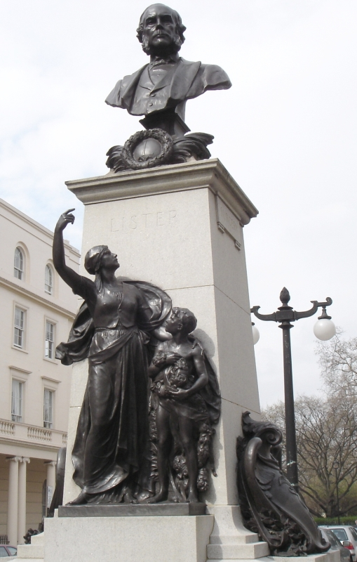 Memorial To Lord Lister-Portland Place London